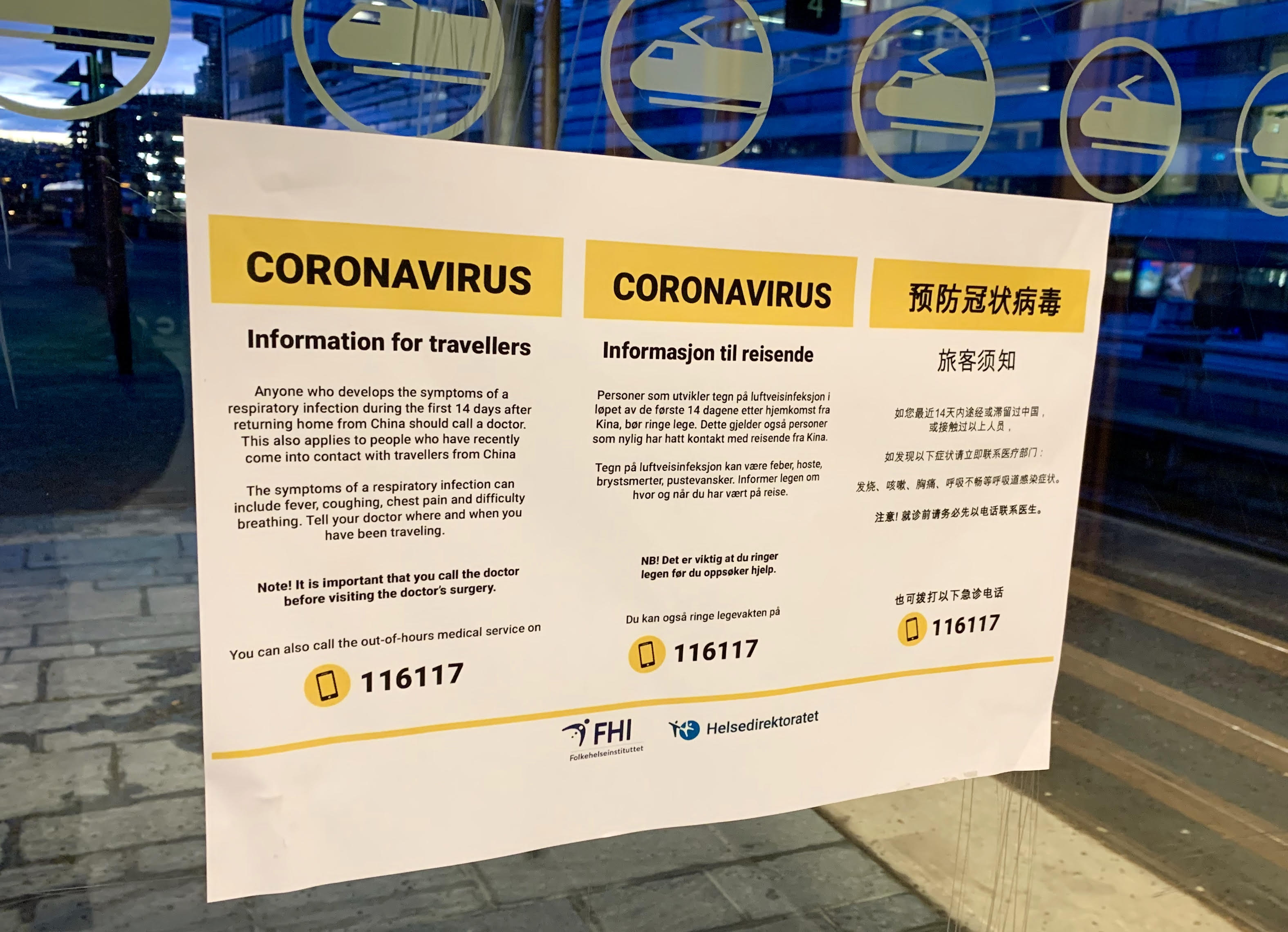 Public notice at Oslo train station regarding outbreak of coronavirus in 2020